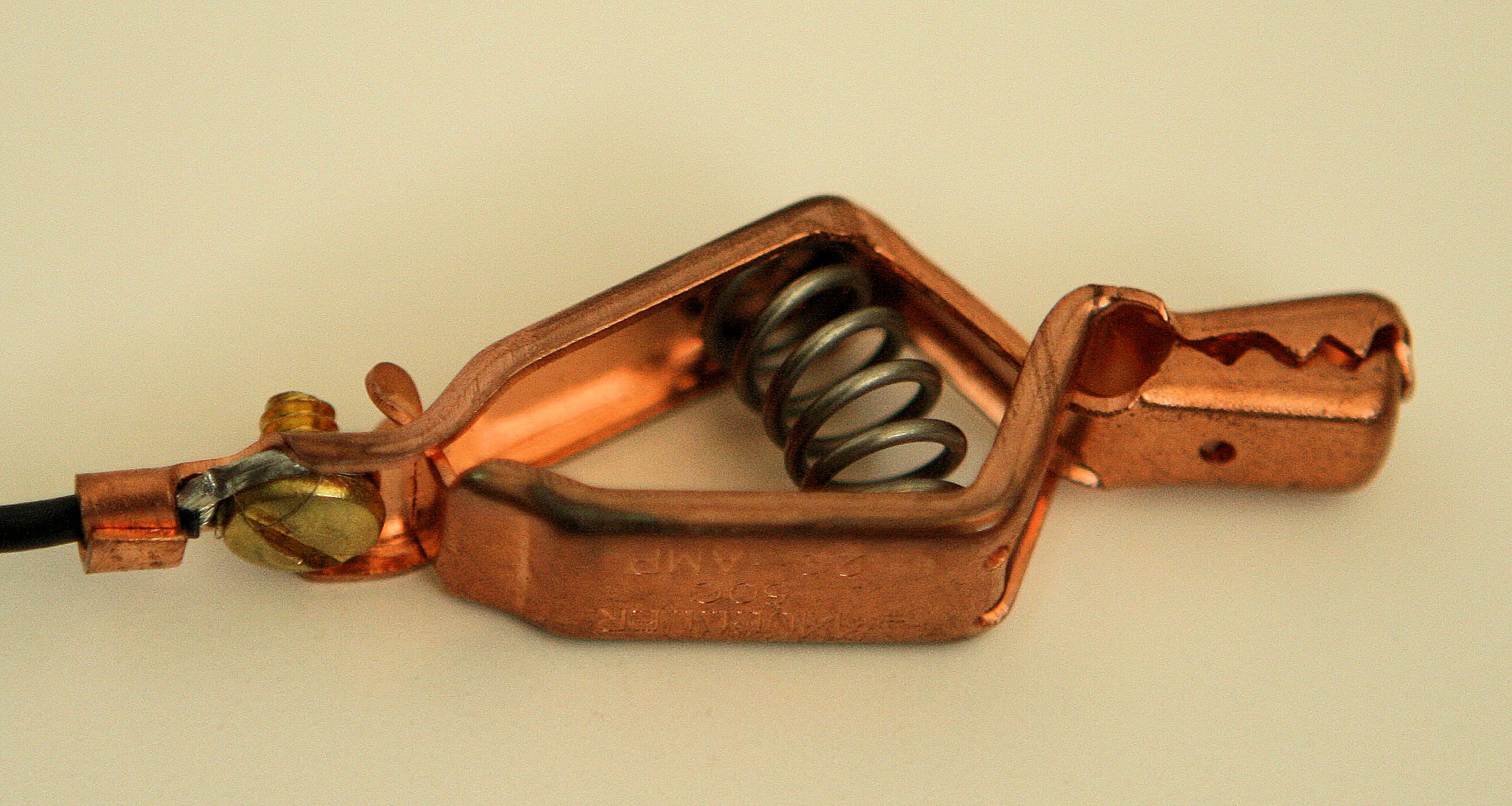 A Crocodile Clip, invented and manufactured by Mueller Electric.